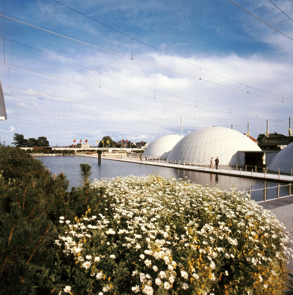 The fair in Örebro 1965